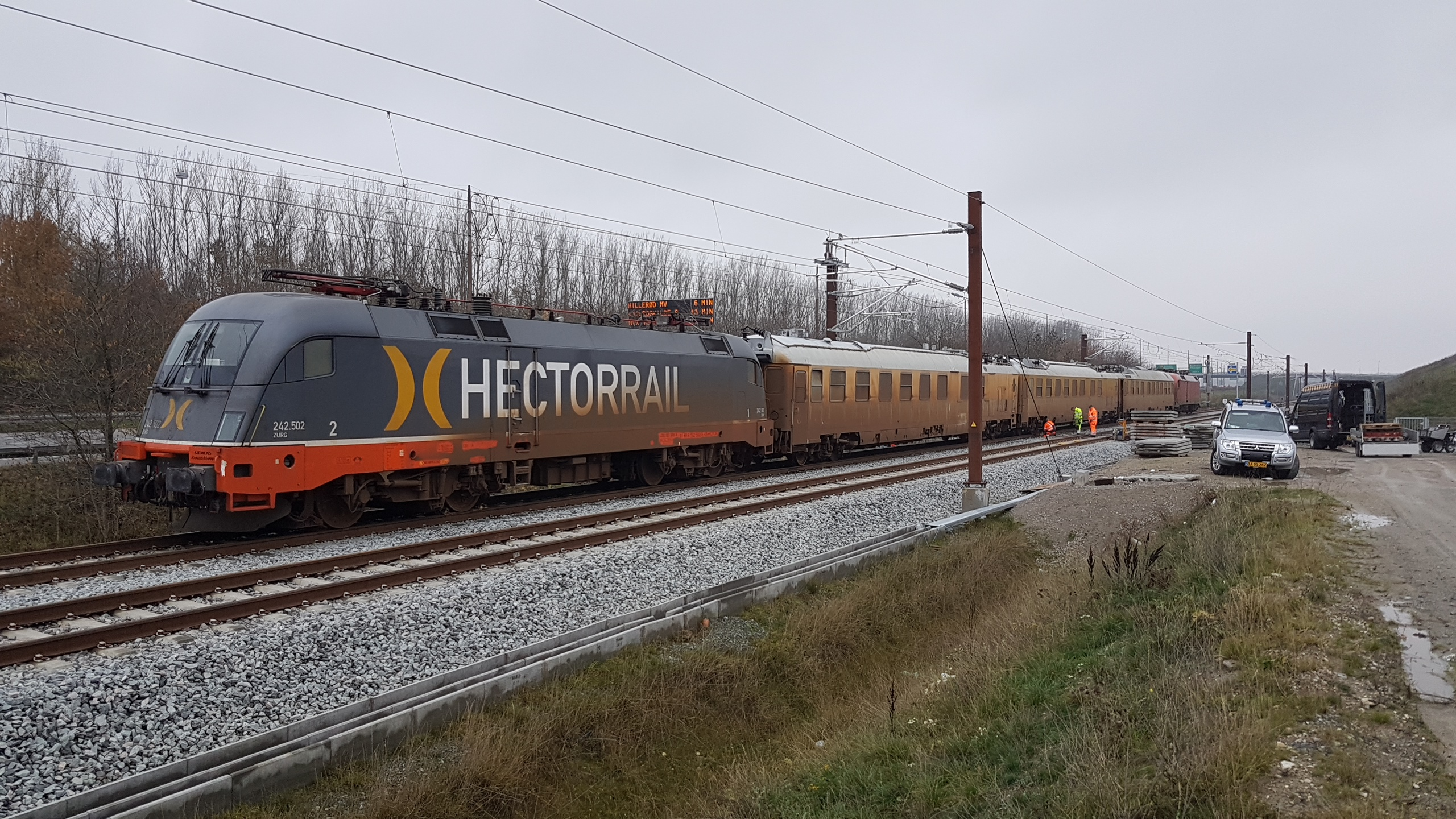 Hector Rail Siemens Taurus locomotive 242.502 'Zurg', three coaches of the DB Systemtechnik and DB Taurus test train on the Copenhagen to Ringsted high speed line between Avedøre Havnevej and Brøndbyøstervej